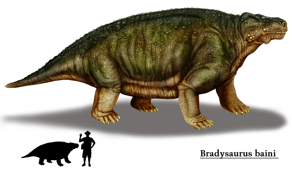 Bradysausus baini.